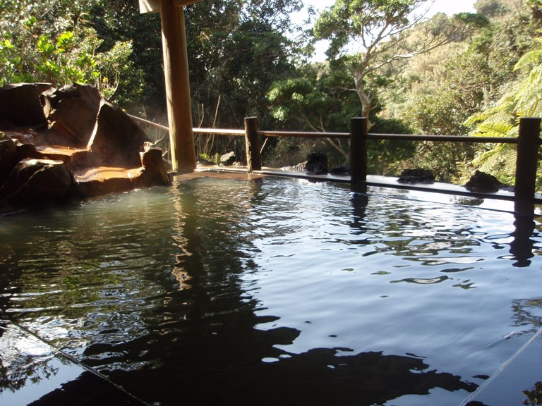 Uramikataki Onsen in Hachiko, Tokyo.